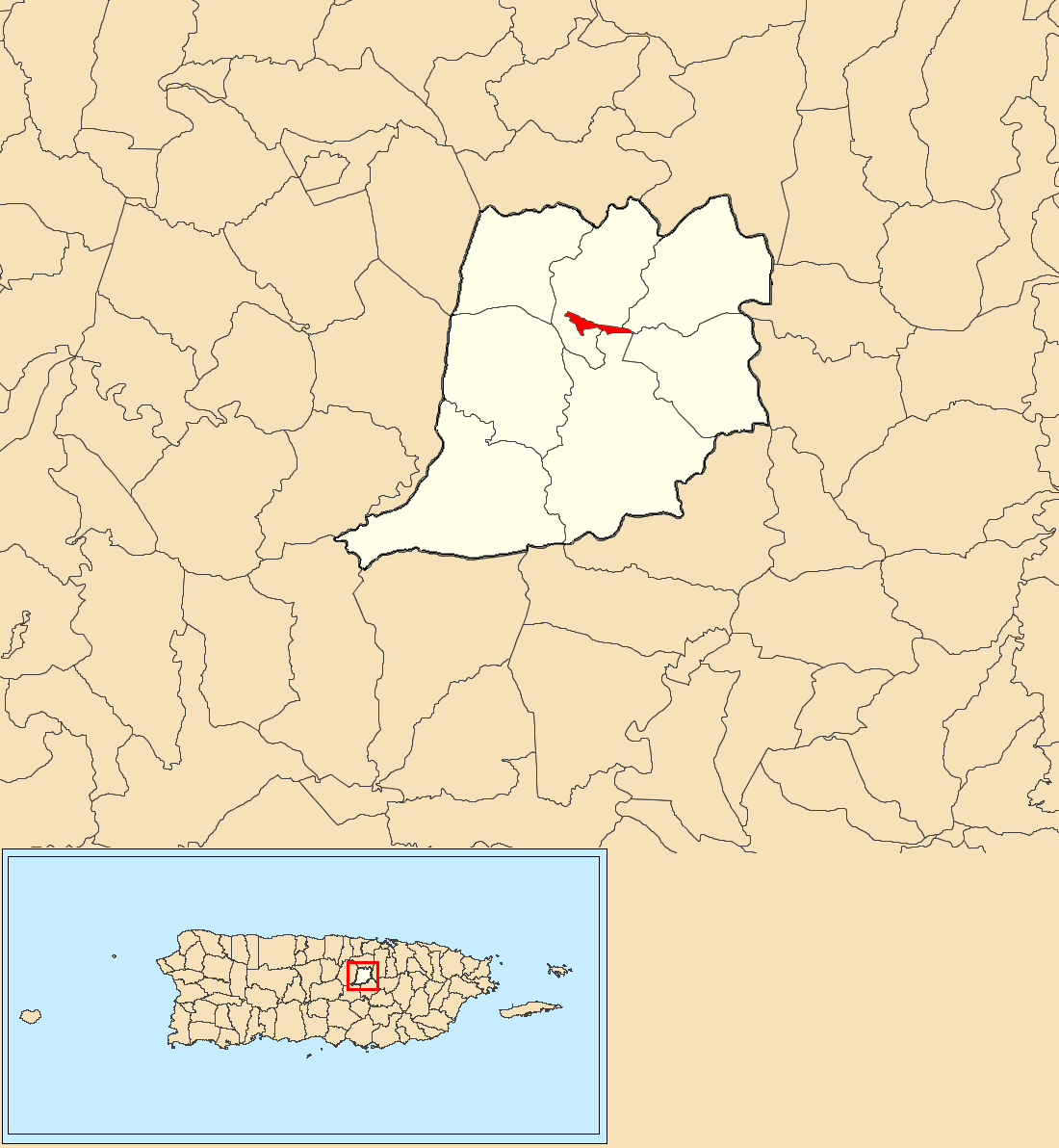 Narranjito barrio-pueblo, Naranjito, Puerto Rico locator map